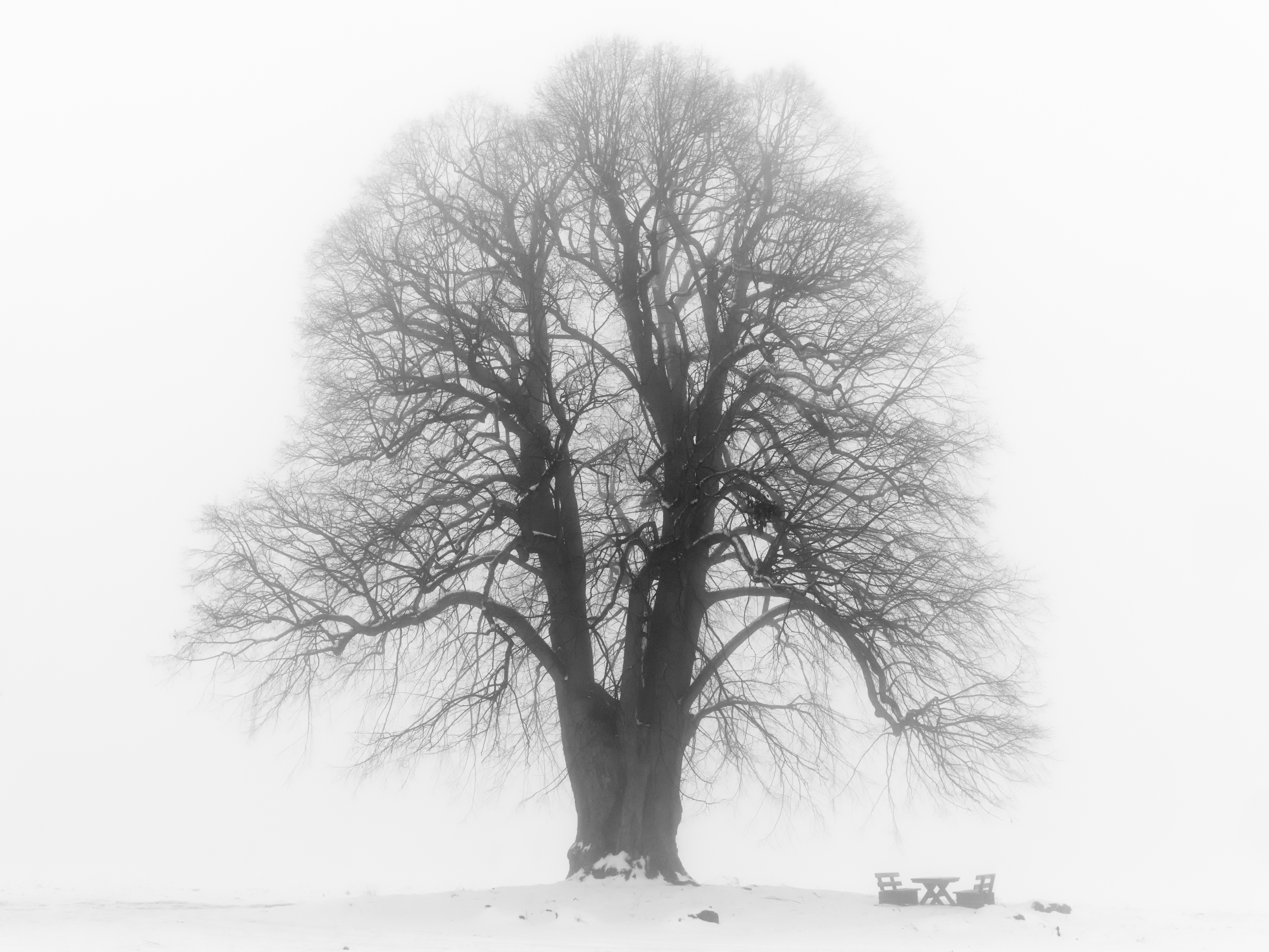 Huge lime near Teuchatz in the LSG "Franconian Switzerland - Veldenstein Forest"